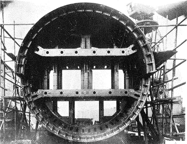 Shield machine for Kammon railway tunnel